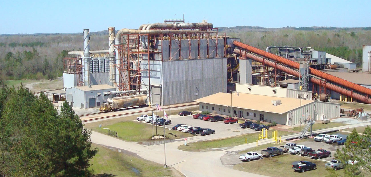 Steel Dust Recycling (SDR) company located in Millport, Alabama, USA